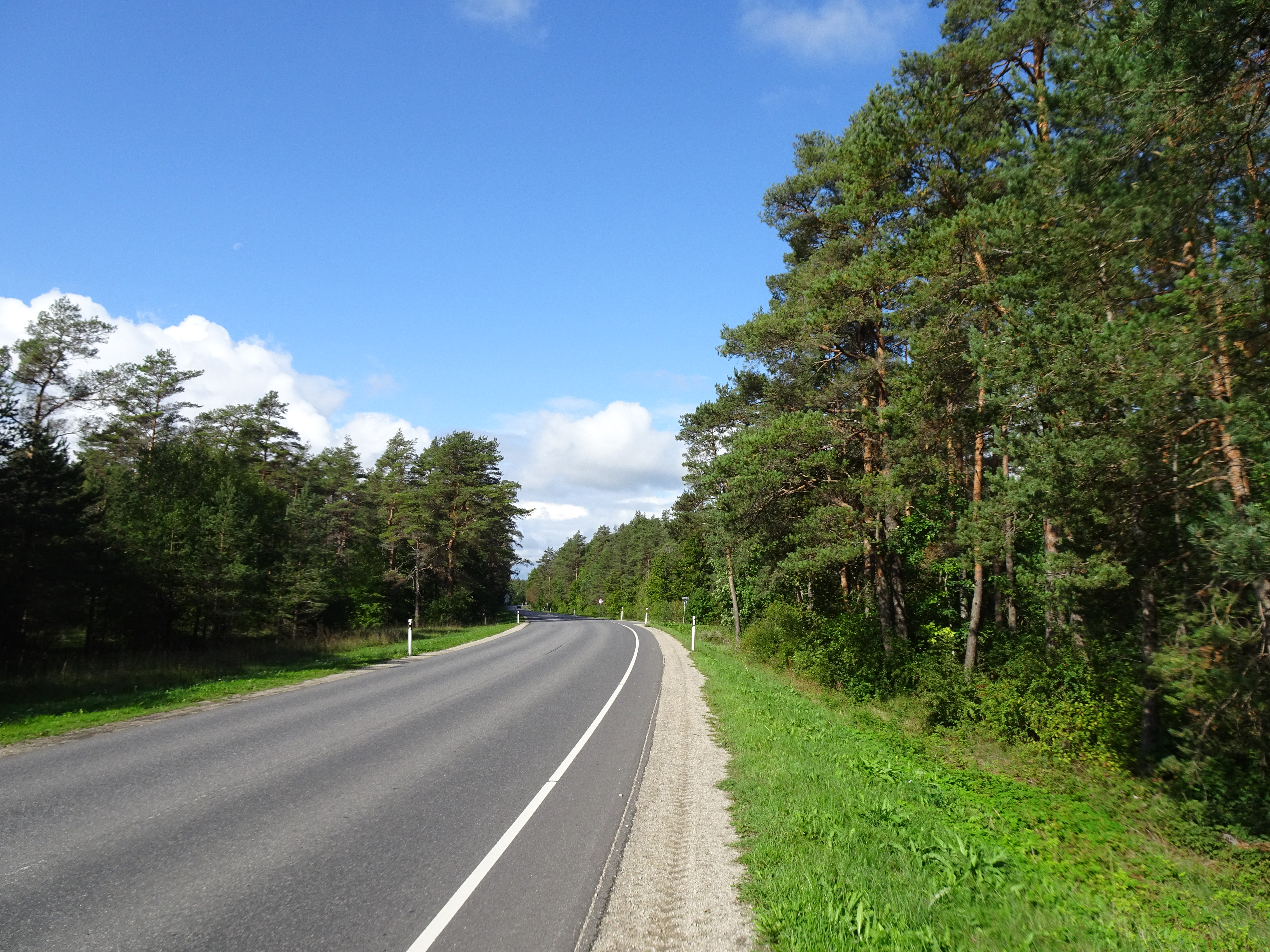 Lagedi-Aruküla-Peningi road in Aruküla pine forest, Harju County, Estonia